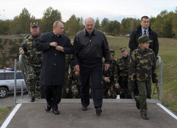 With Belarusian President Alexander Lukashenko at the Gozhsky test ground during the final stage of the Zapad-2013 Russian-Belarusian strategic military exercises.